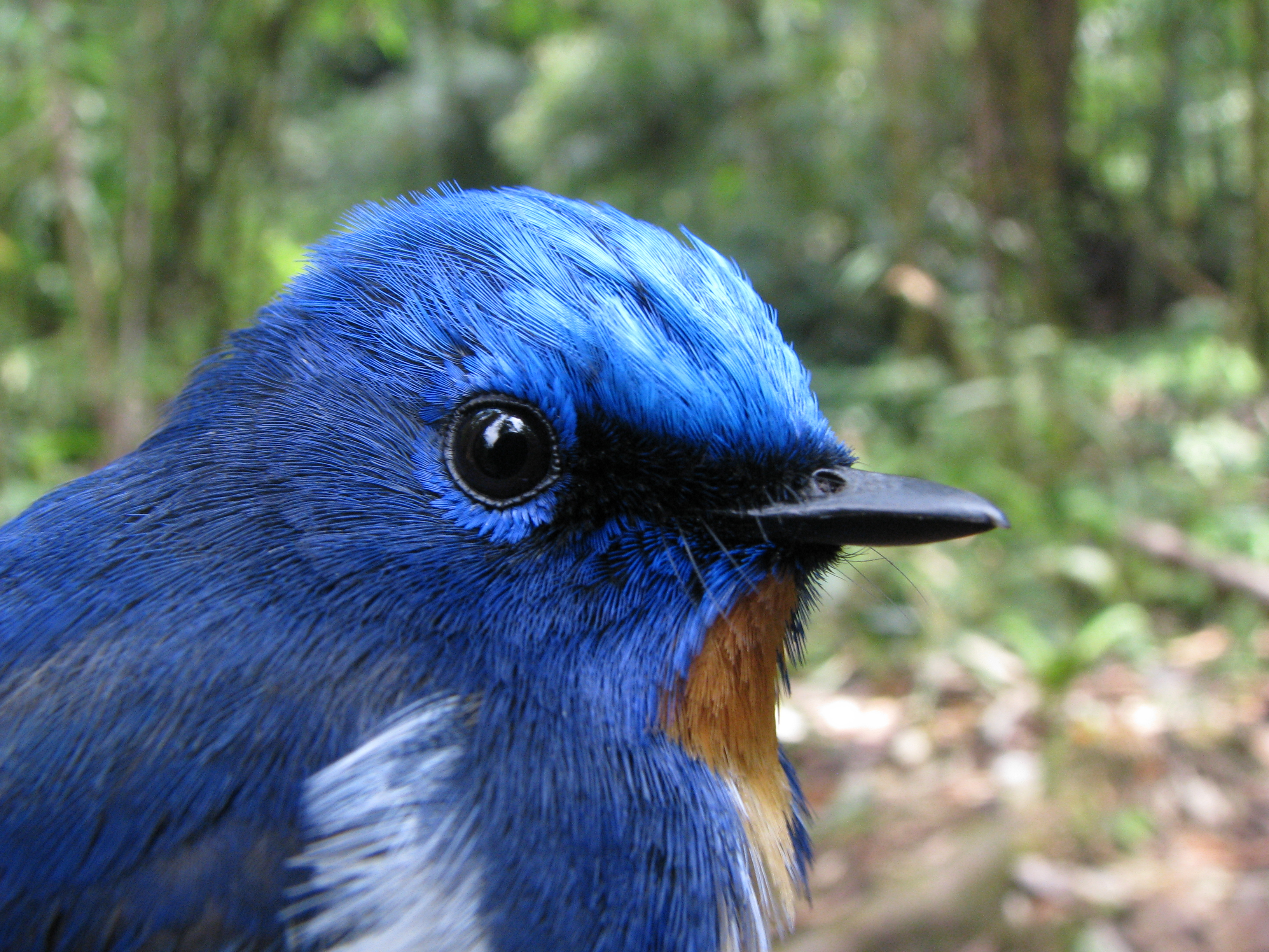 Sapphire Flycatcher, Eaglenest Wildlife Sanctuary